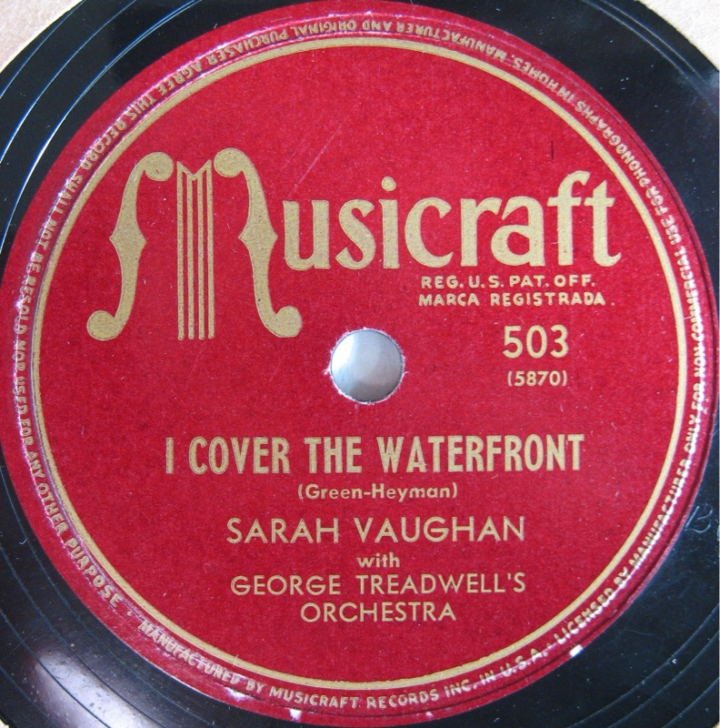 sarah vaughan shellck i cover the waterfront